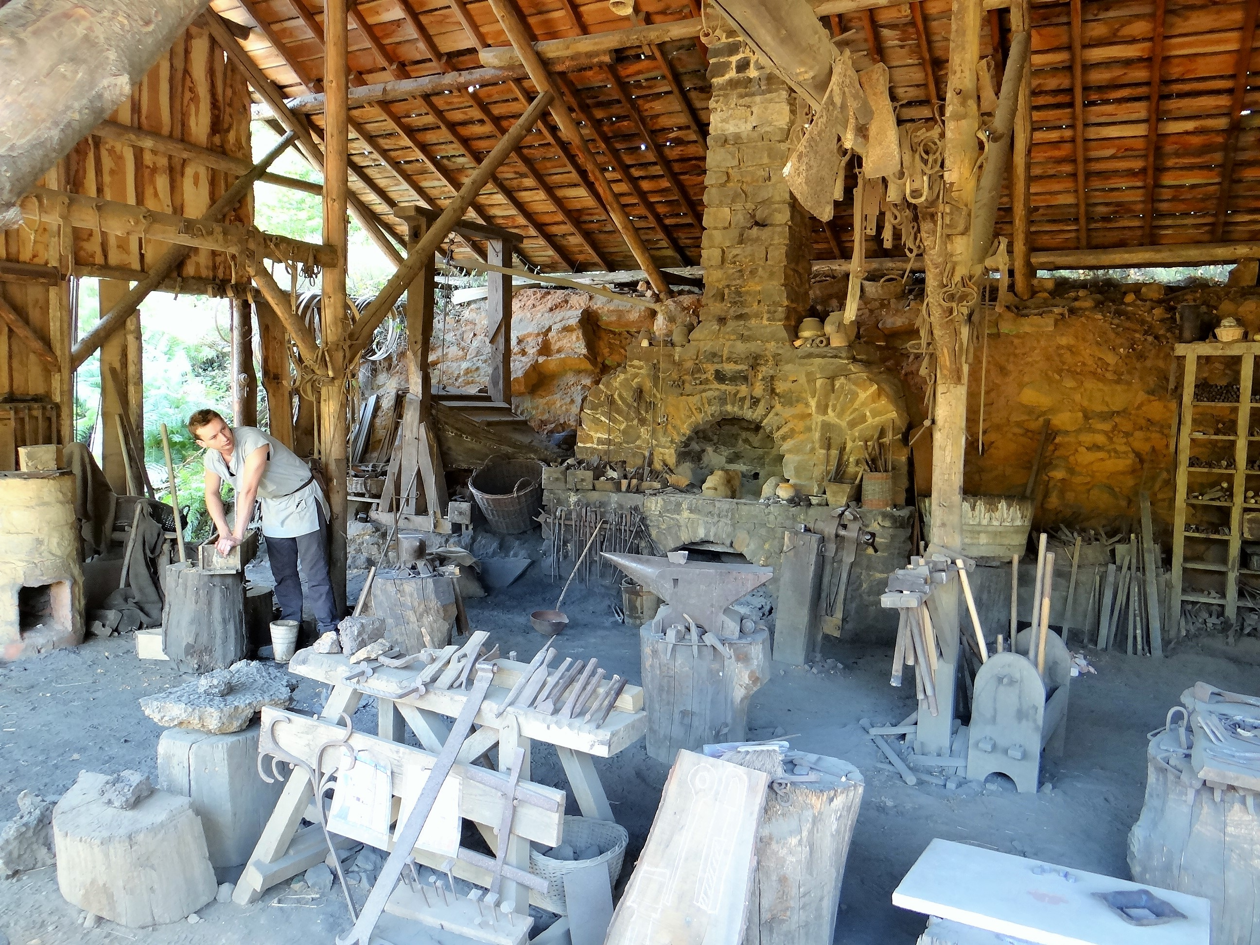 Guédelon forge : In the heart of France, in northern Burgundy, a team has taken on an extraordinary challenge: building a castle using medieval techniques and materials.